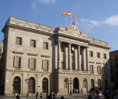 The Casa de la Ciutat (city hall), on the Plaça St. Jaume in the Barri Gòtic, Barcelona. July 2002. Photo by Montrealais.